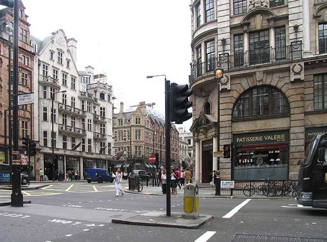 View from St James's Street into Piccadilly